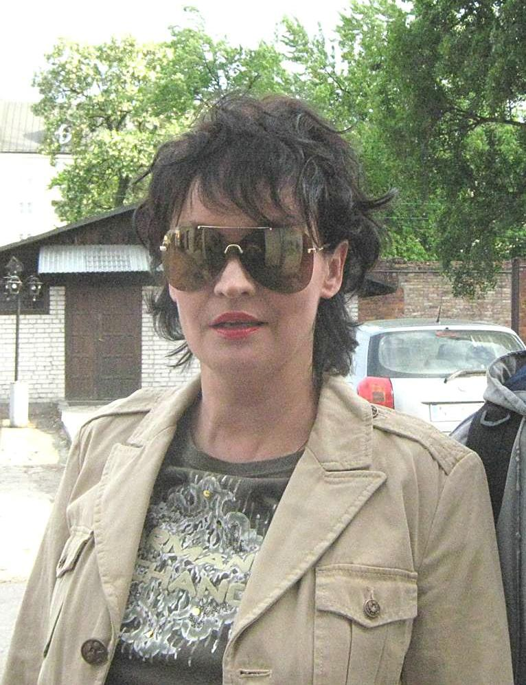 Polish actress and vocalist Adrianna Biedrzyńska.